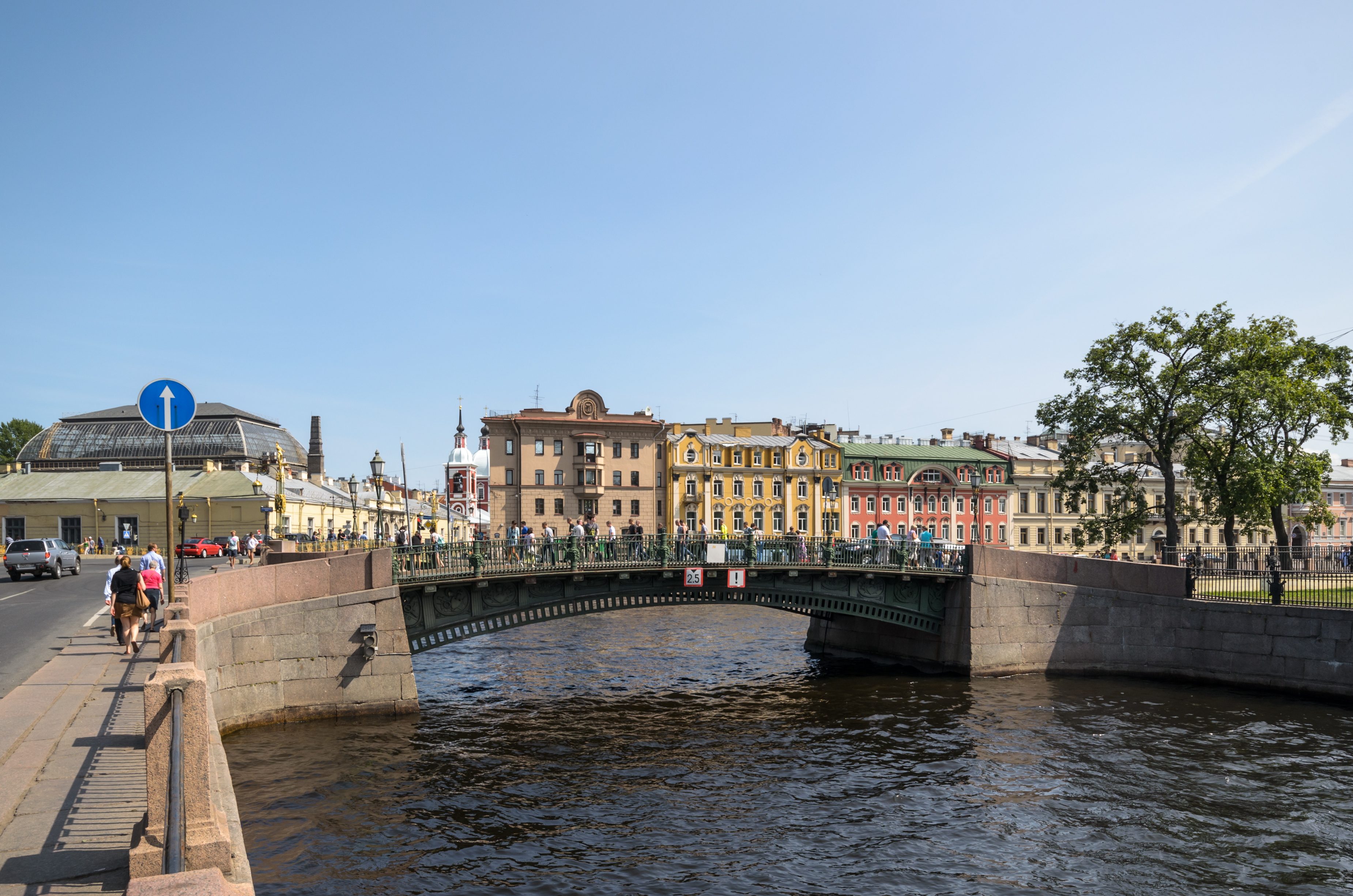 1st Inzhenerny Bridge in Saint Petersburg